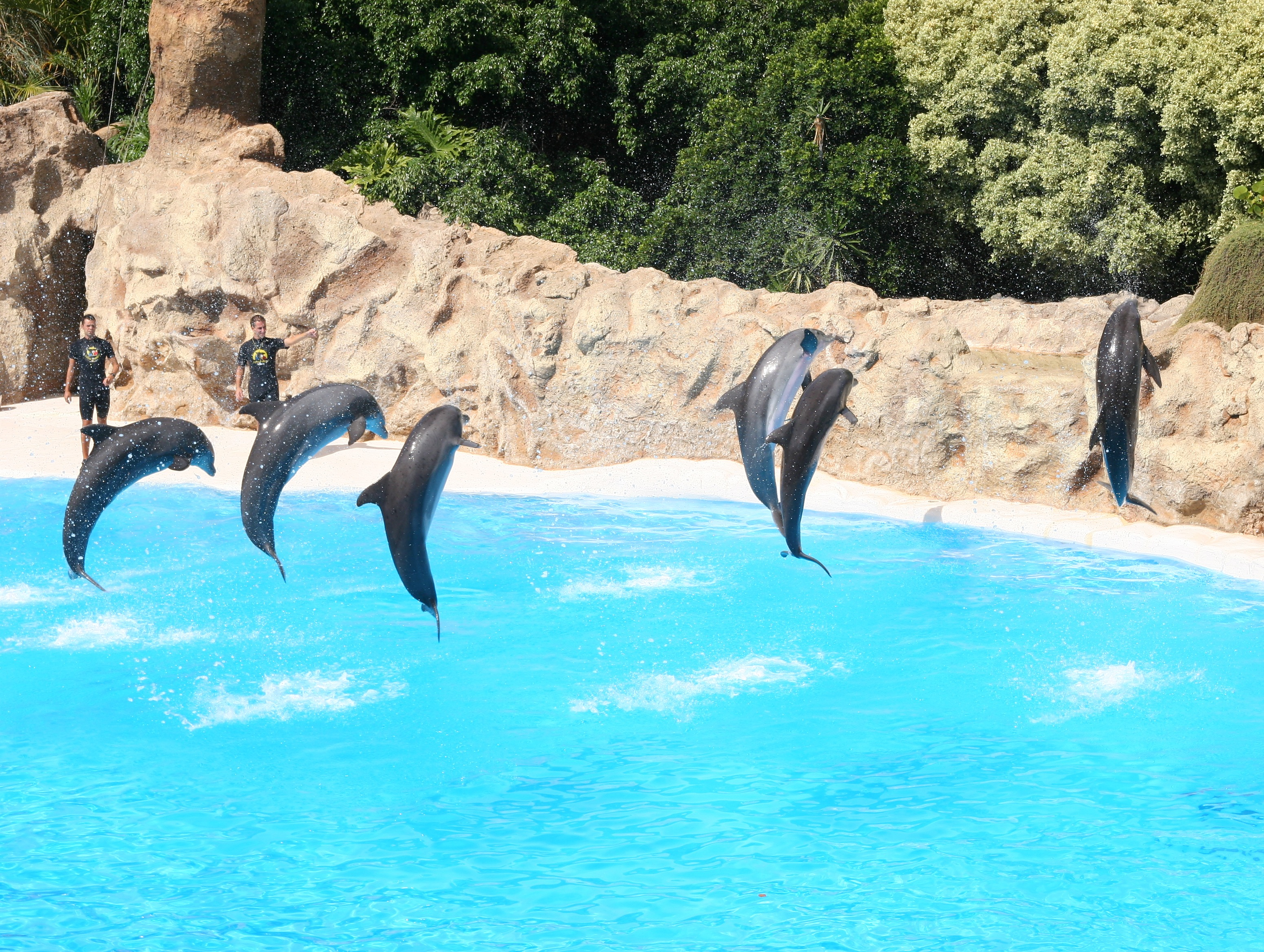 Dolphin show, Loro Parque, Tenerife, Canary Islands, Spain.